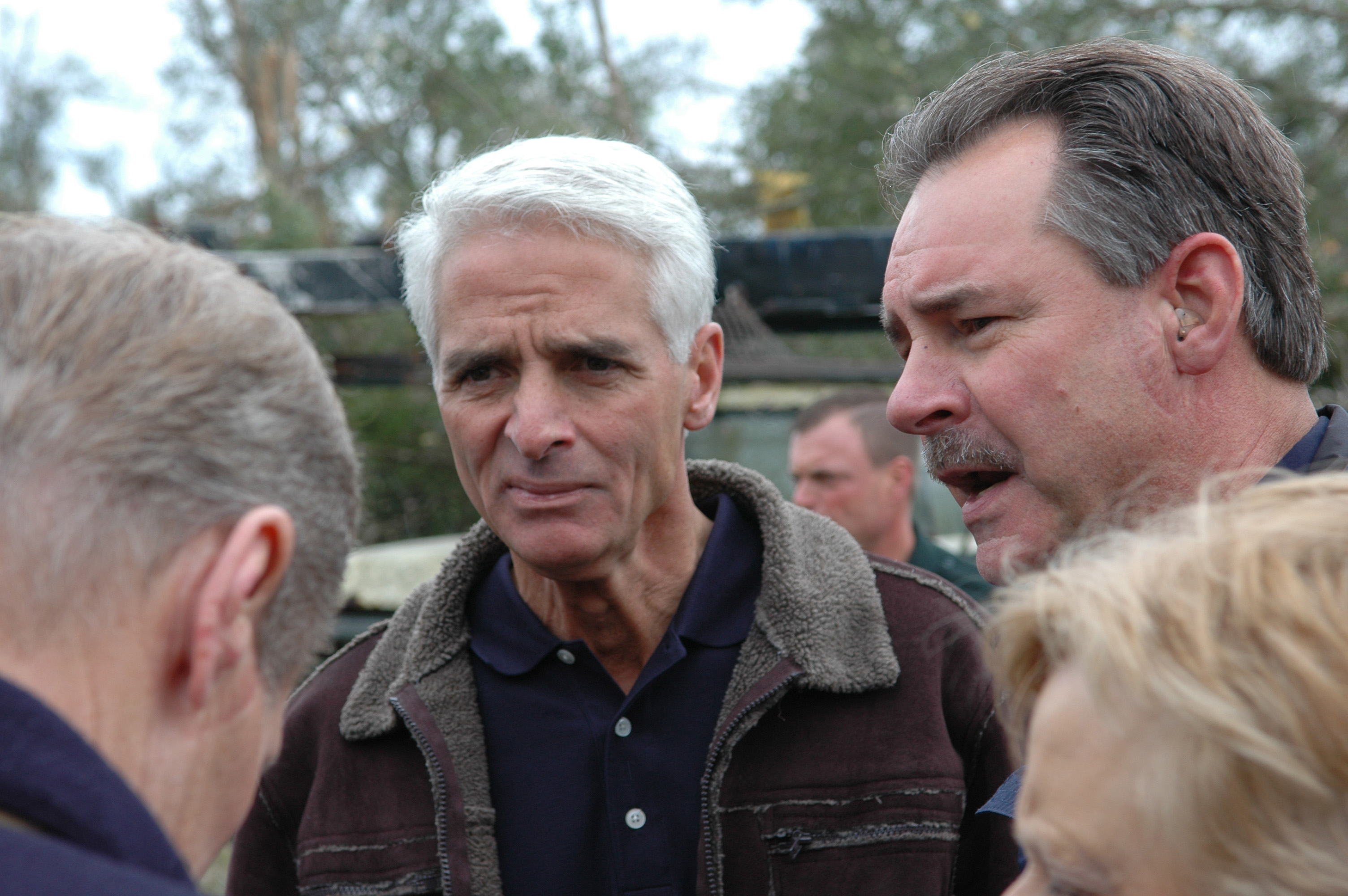 Lady Lake, Fla., February 3, 2007 -- FEMA Director David Paulison (right), talks about FEMA's initial response to the tornadoes that struck central Florida last night as Florida Governor Charlie Crist looks on. Severe damage and several deaths were caused by the one or more tornadoes. Mark Wolfe/FEMA